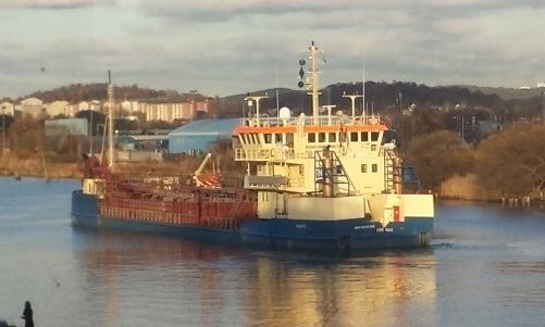 Hopper barge with closed hull